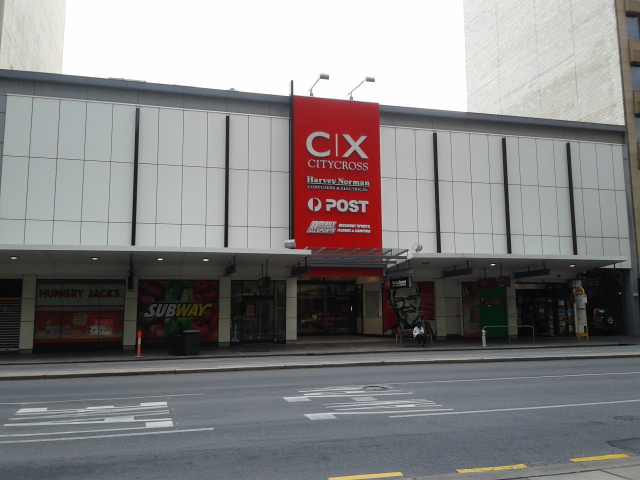 City Cross Arcade entrance on Grenfell Street, Adelaide.